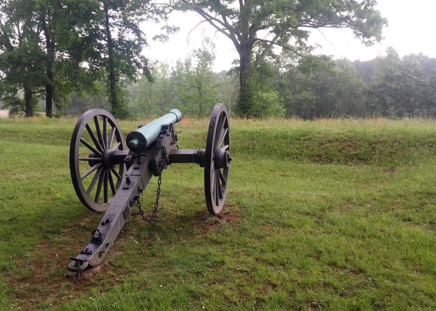 Jackson's battery at Prospect Hill